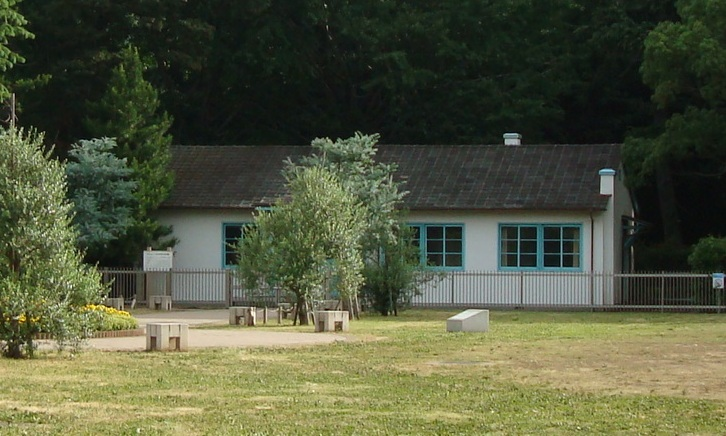 An old house of former Washington Heights, U.S. army housing complex in Japan under occupation, left standing in Yoyogi Park, Tokyo. (House #528 or #527)